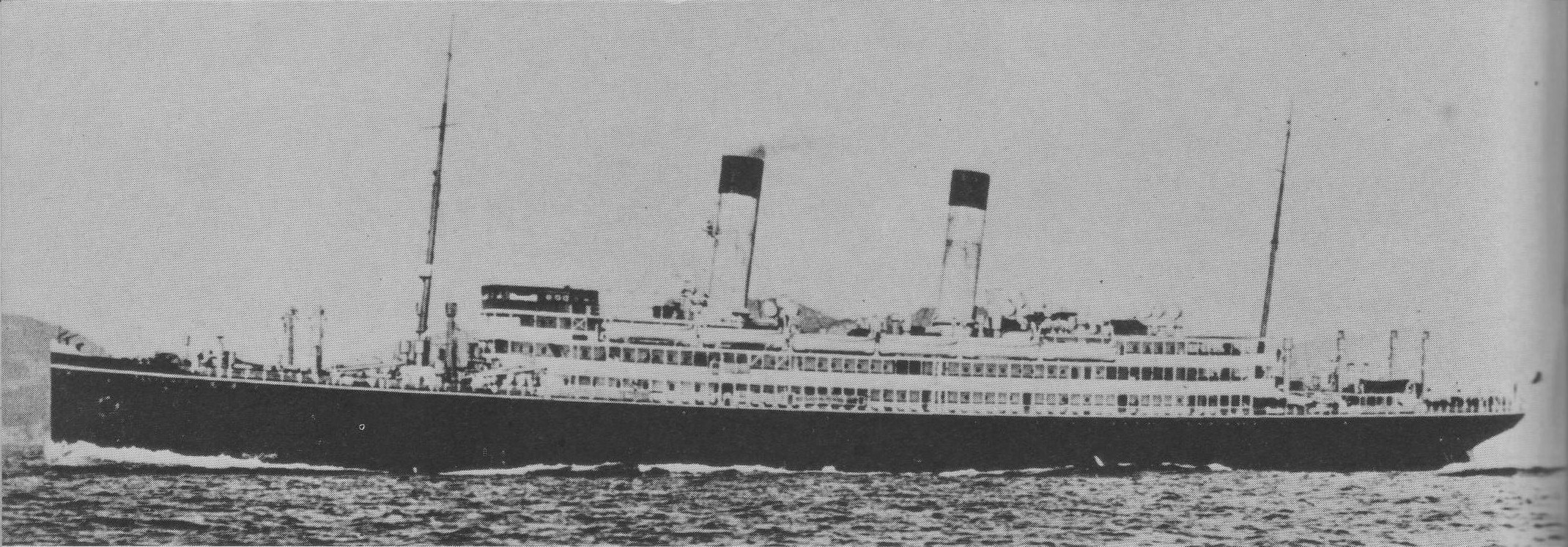 T. K. K. Line (Toyo Kisen) "Tenyo Maru" (1908)